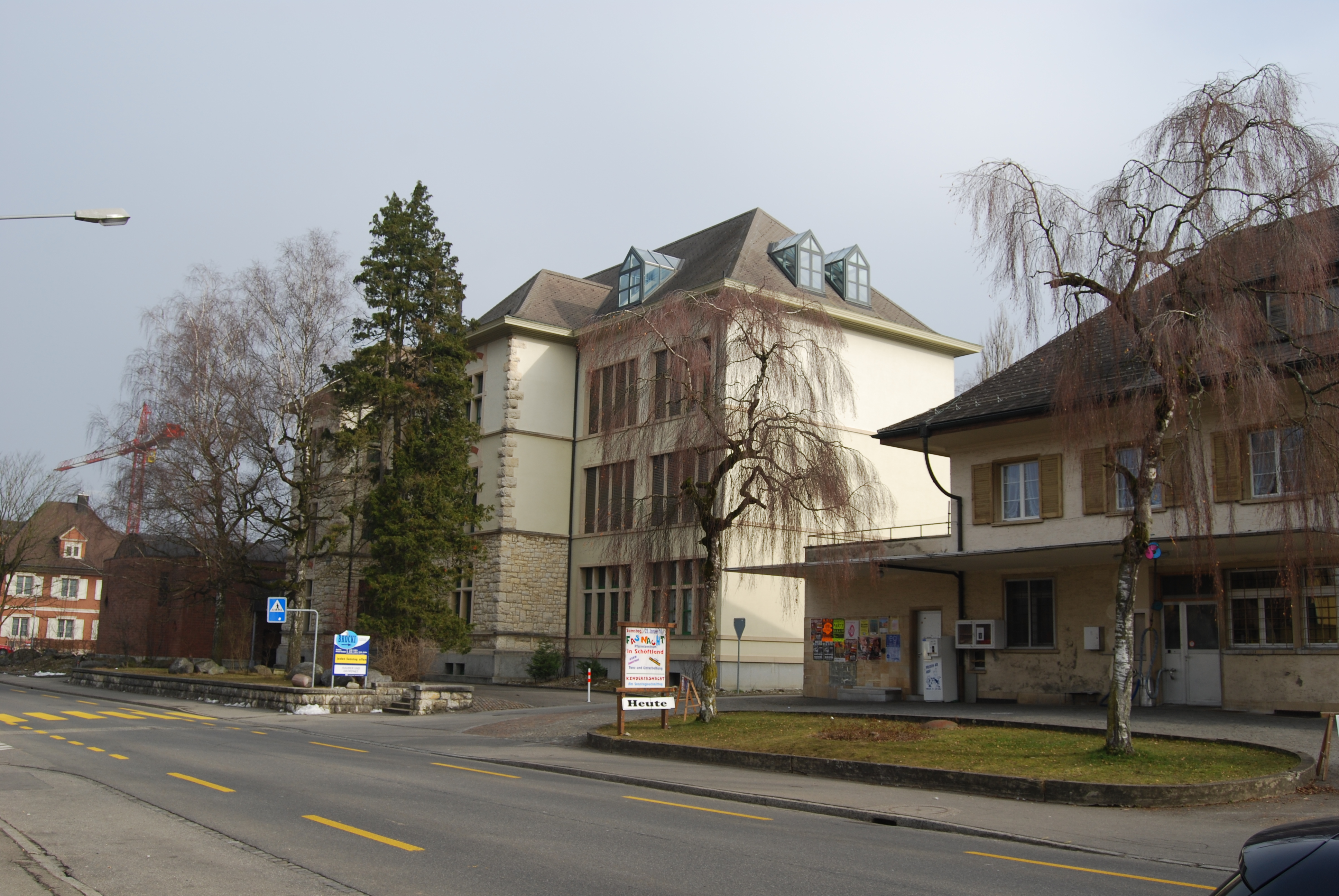 School at Schöftland, canton of Aargau, SwitzerlandEsperanto: Lernejo en Schöftland, Kantono Argovio, Svislando